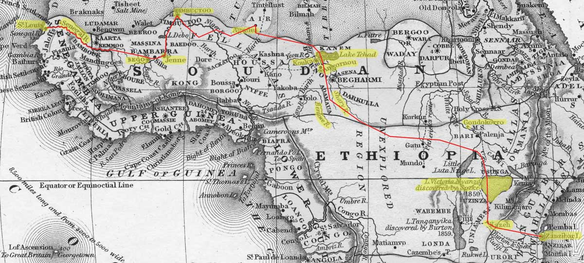 Red line shows the trip taken in Five Weeks in a Balloon from Zanzibar to St. Louis, from old public domain map of Africa from approximately the same period. Note unexplored regions in the middle. Highlighted in yellow are some of the locations mentioned in the book.